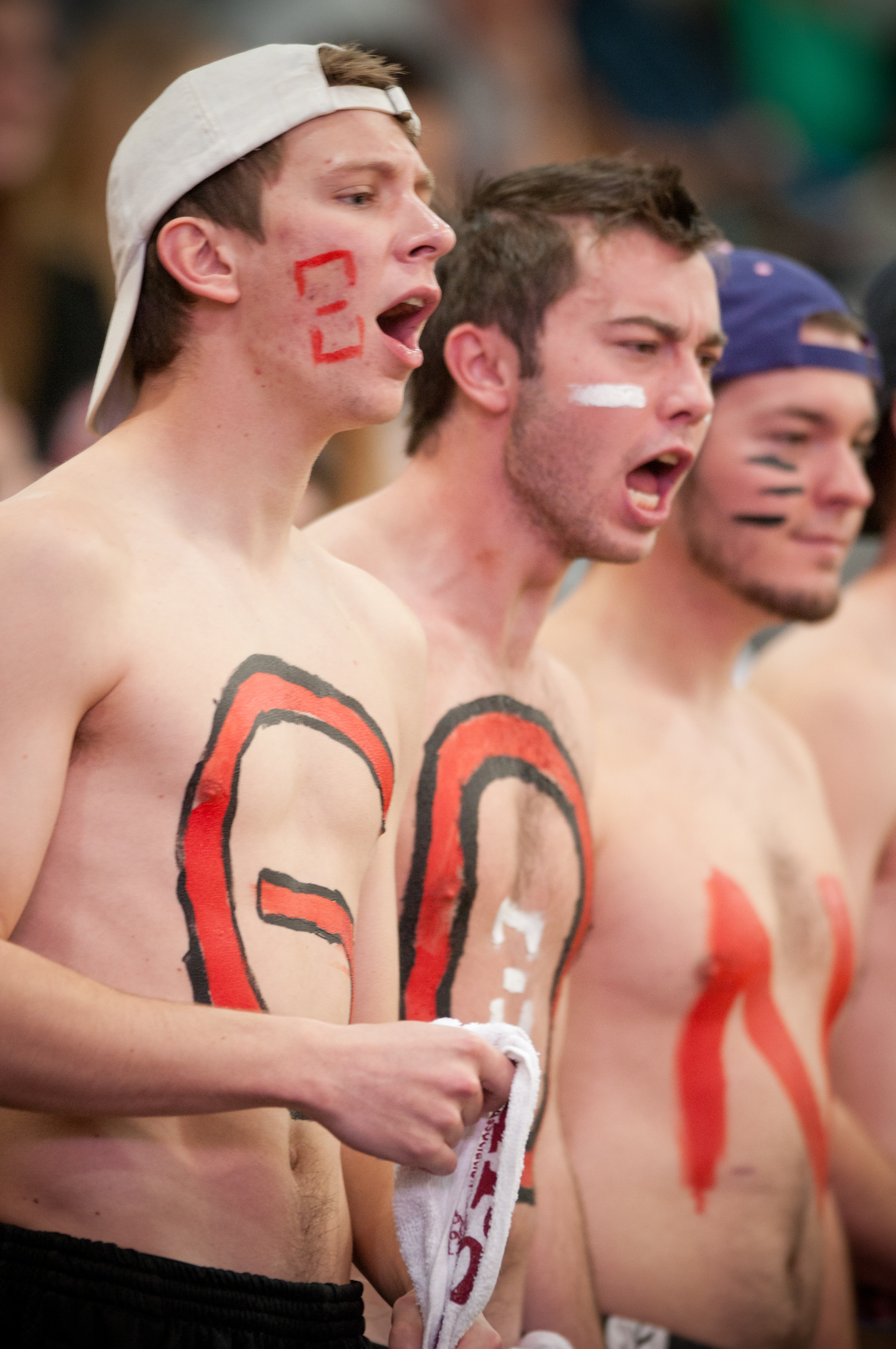 These Maroon fans certainly aren't lacking in spirit!